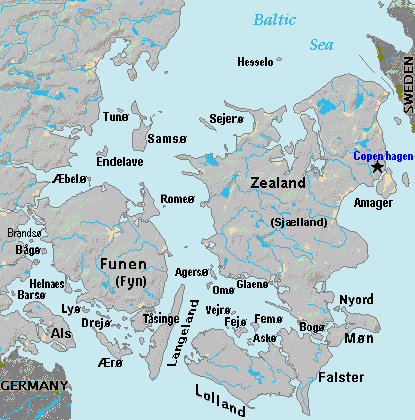 Terrain map of southeast Denmark, showing the major islands labeled, in the region between Germany and Sweden. The terrain data was extracted from the Demis map (on Wikimedia Commons) Image:La2-demis-denmark.png, and the extracted map was color-shifted to grayshade land areas (from the green Demis map). Labels are in font face Arial or Arial Narrow, sizes 8-10.